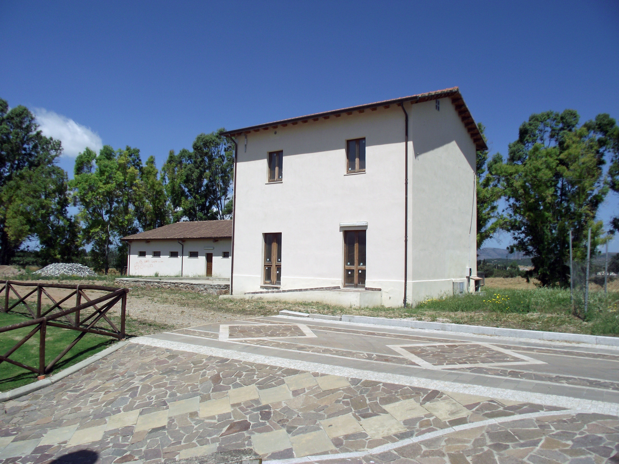 The former train halt of Piscinas in Sardinia, Italy, along the dismantled railway Siliqua-San Giovanni Suergiu-Calasetta